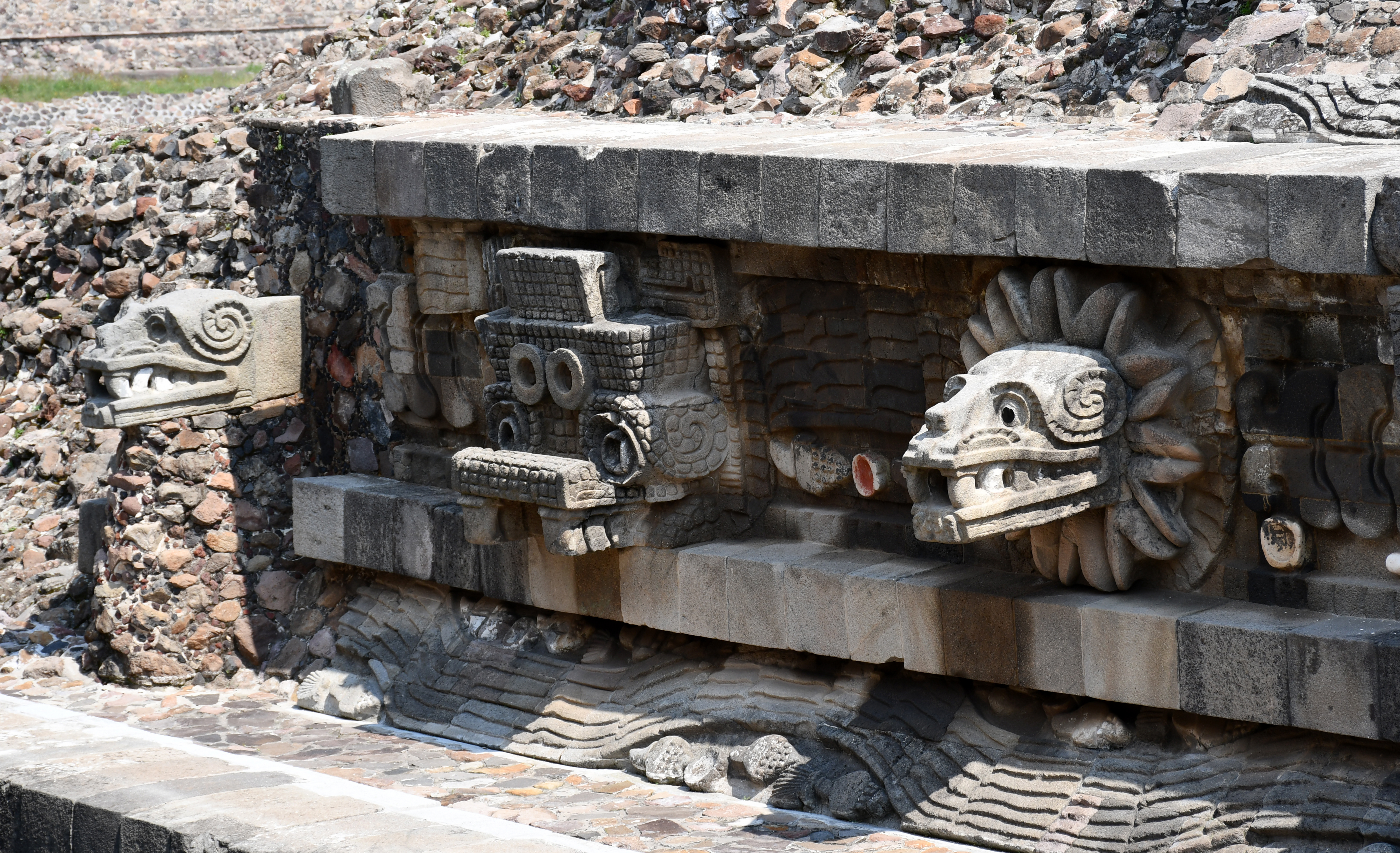 Detail from the Temple of the Feathered Serpent, third largest pyramid at Teotihuacan, an ancient Mesoamerican city located in a sub-valley of the Valley of Mexico (Greater Mexico City).